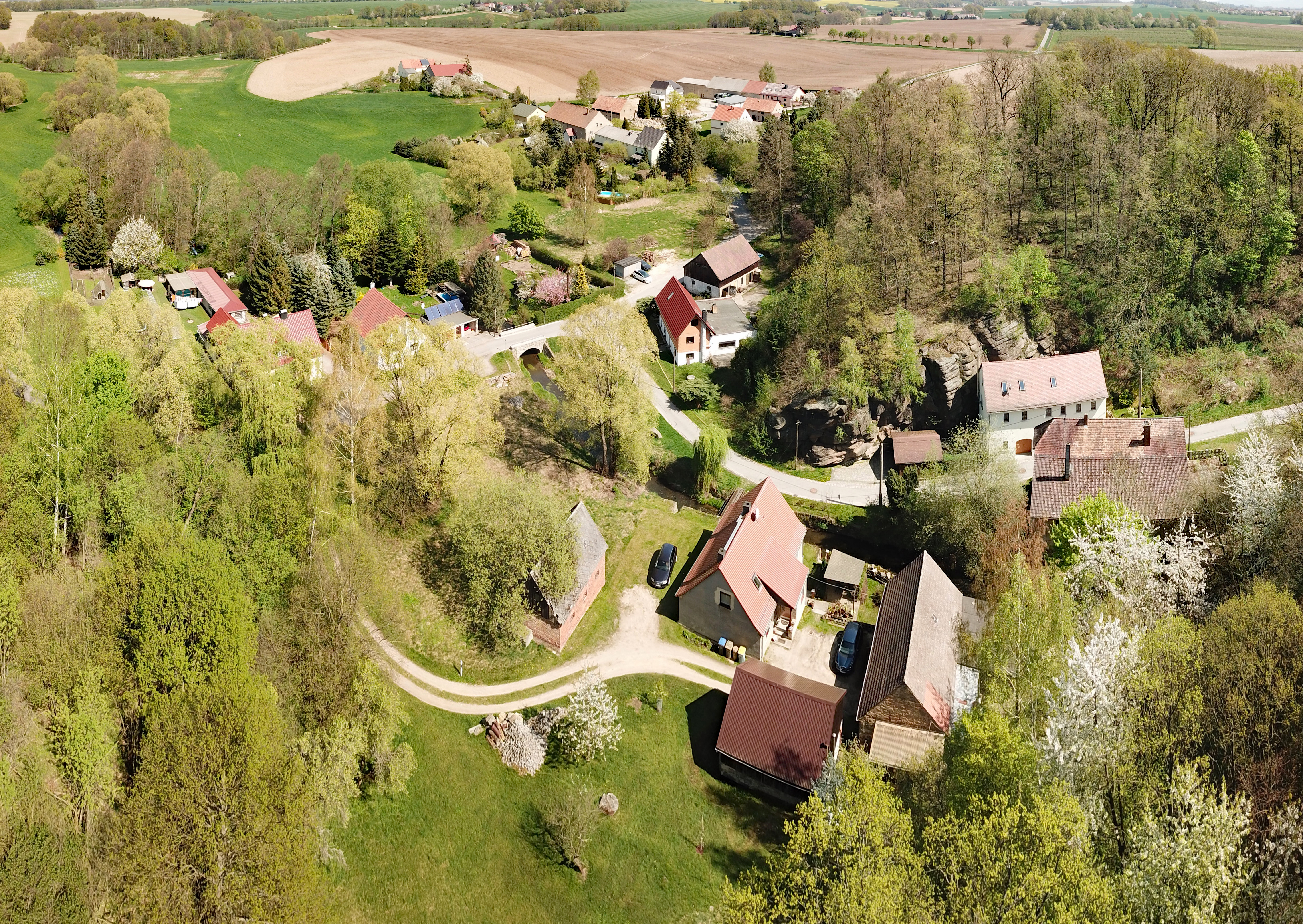 Dahren (Göda, Saxony, Germany) Hornjoserbsce: Powětrowy wobraz Darina